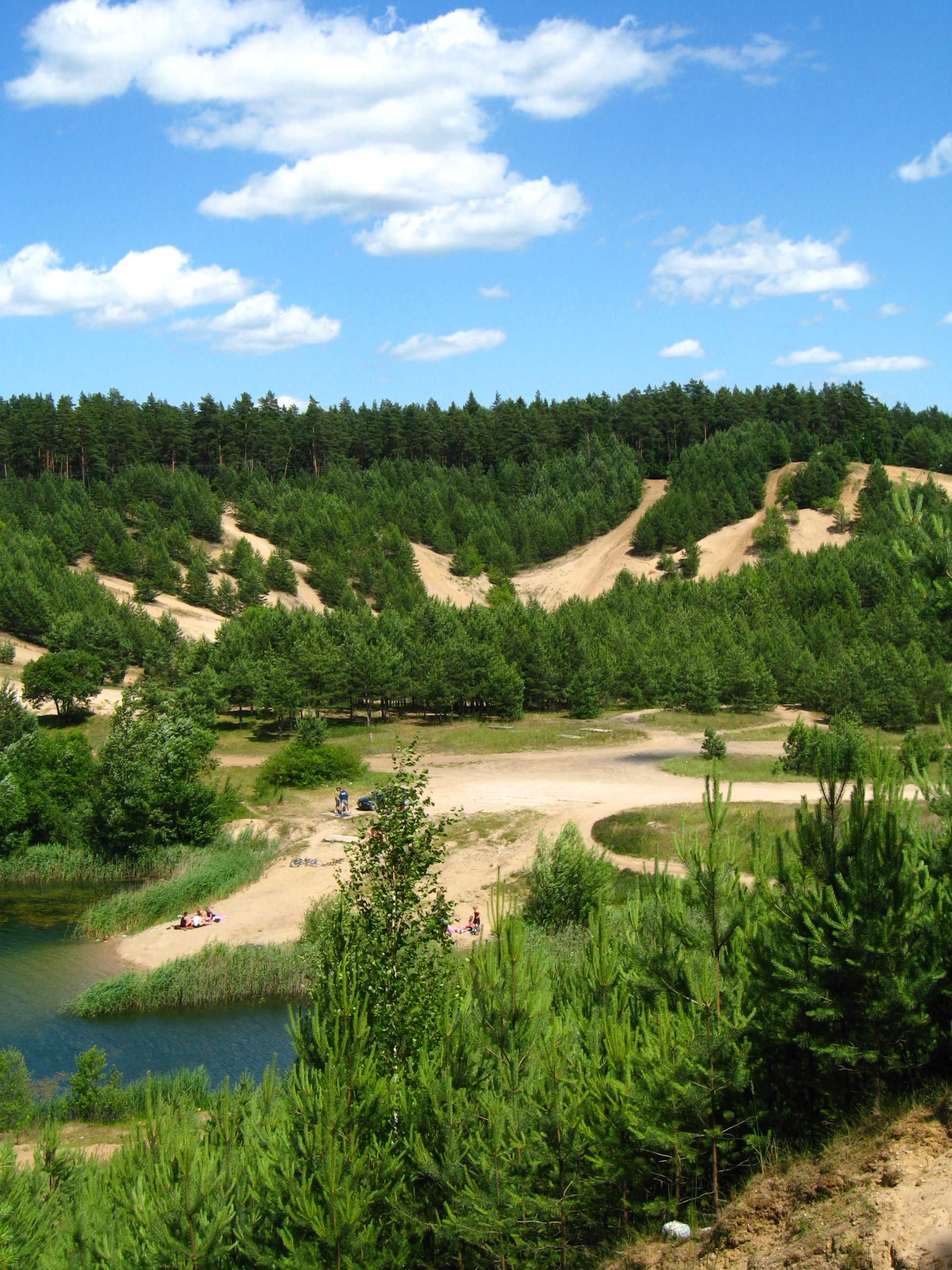 Pond at old gravel pit near Ogrodniczki